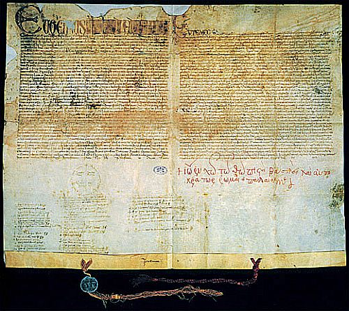 Bull of union between Rome and Konstantinopolis on 6. July 1339